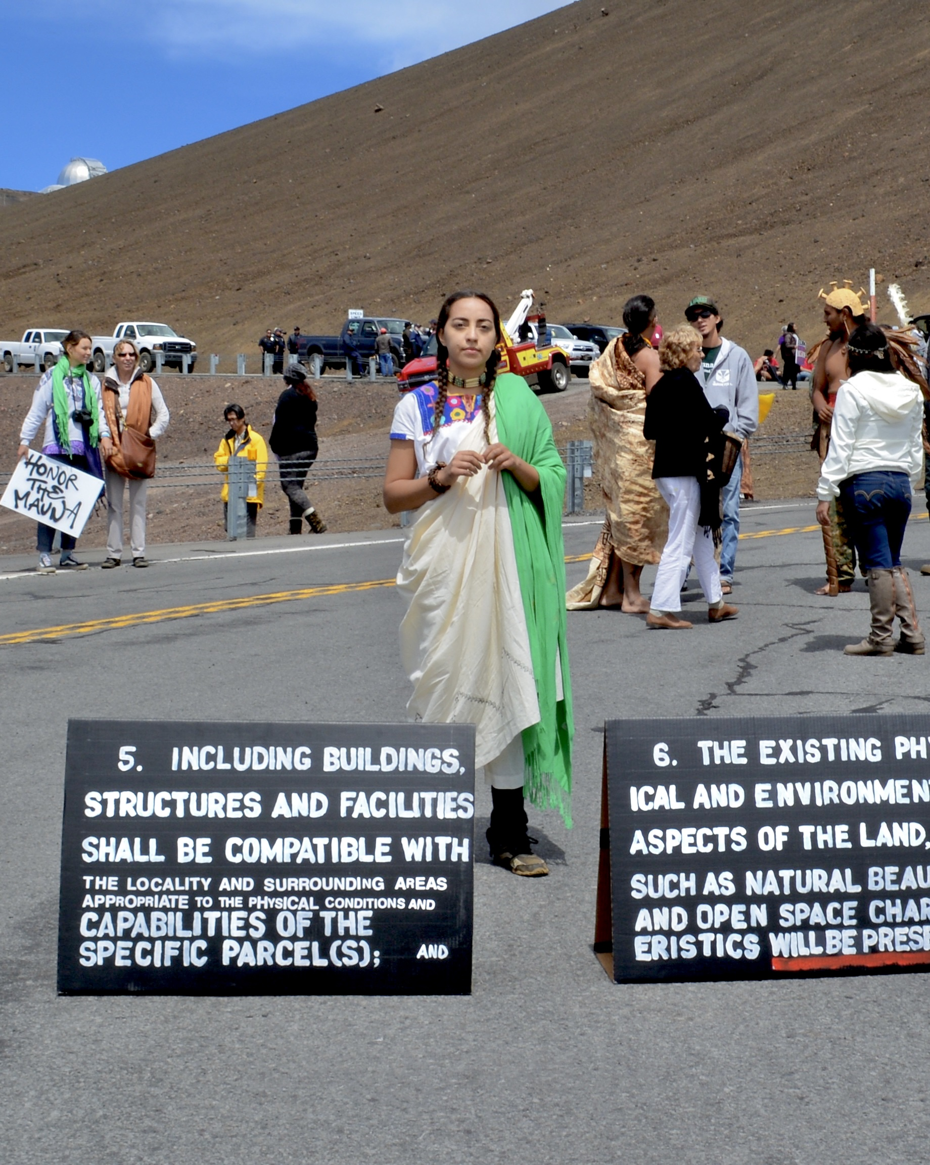 Thirty Meter Telescope protest, October 7, 2014